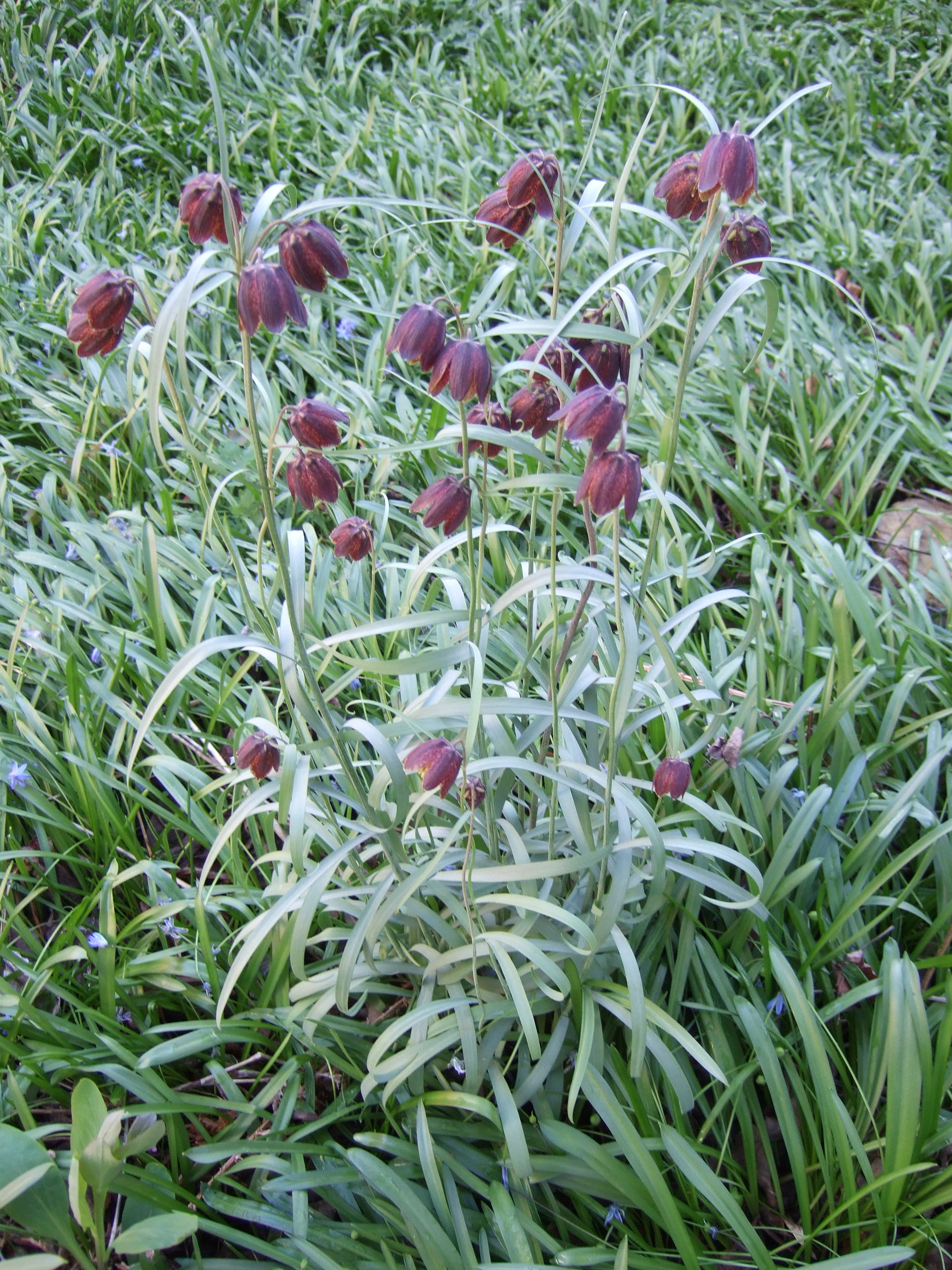 Fritillaria ruthenica